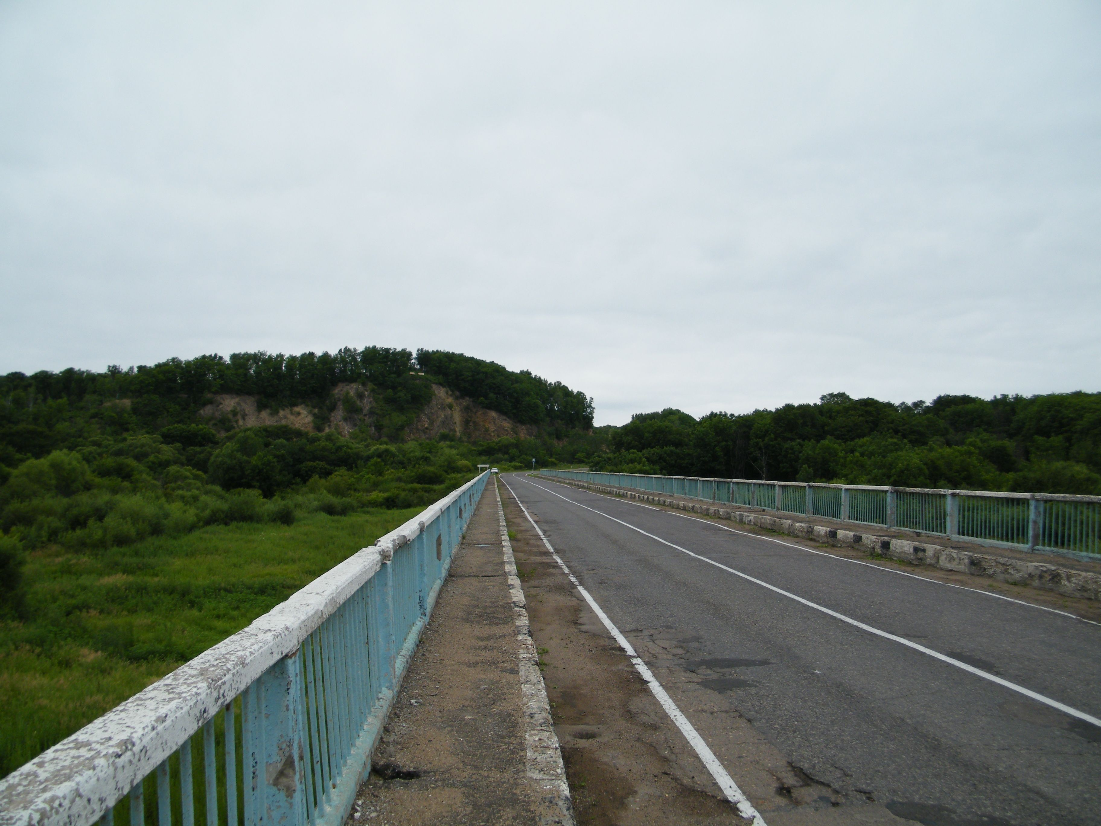 Bridge over Arsenyevka in Primorsky Krai. Behind curve is Lazarevka